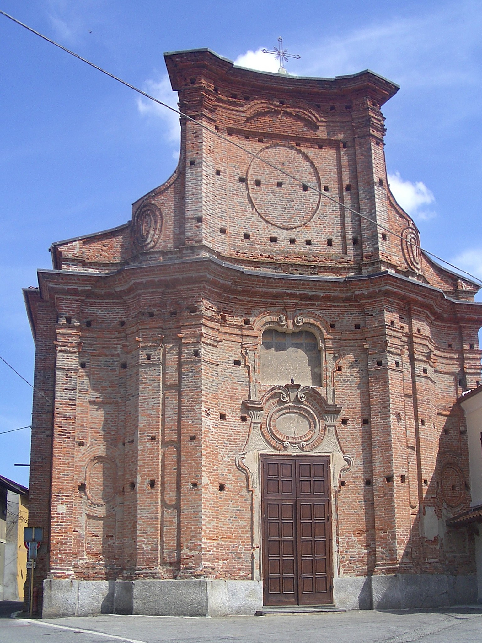 Barone Canavese, the parish church (Chiesa di Santa Maria Assunt